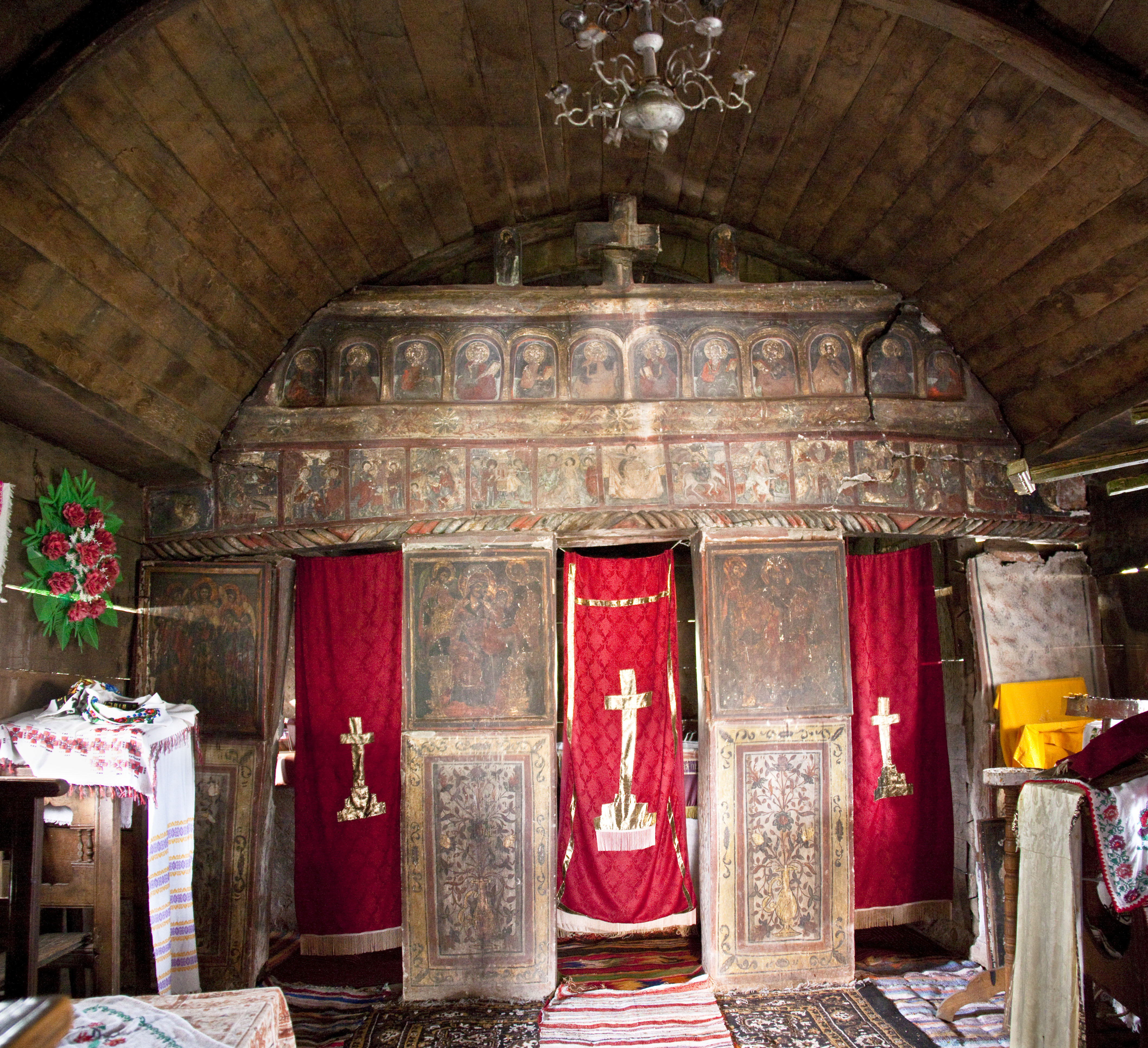 Cârstieni, Argeş county, Romania: the wooden church.